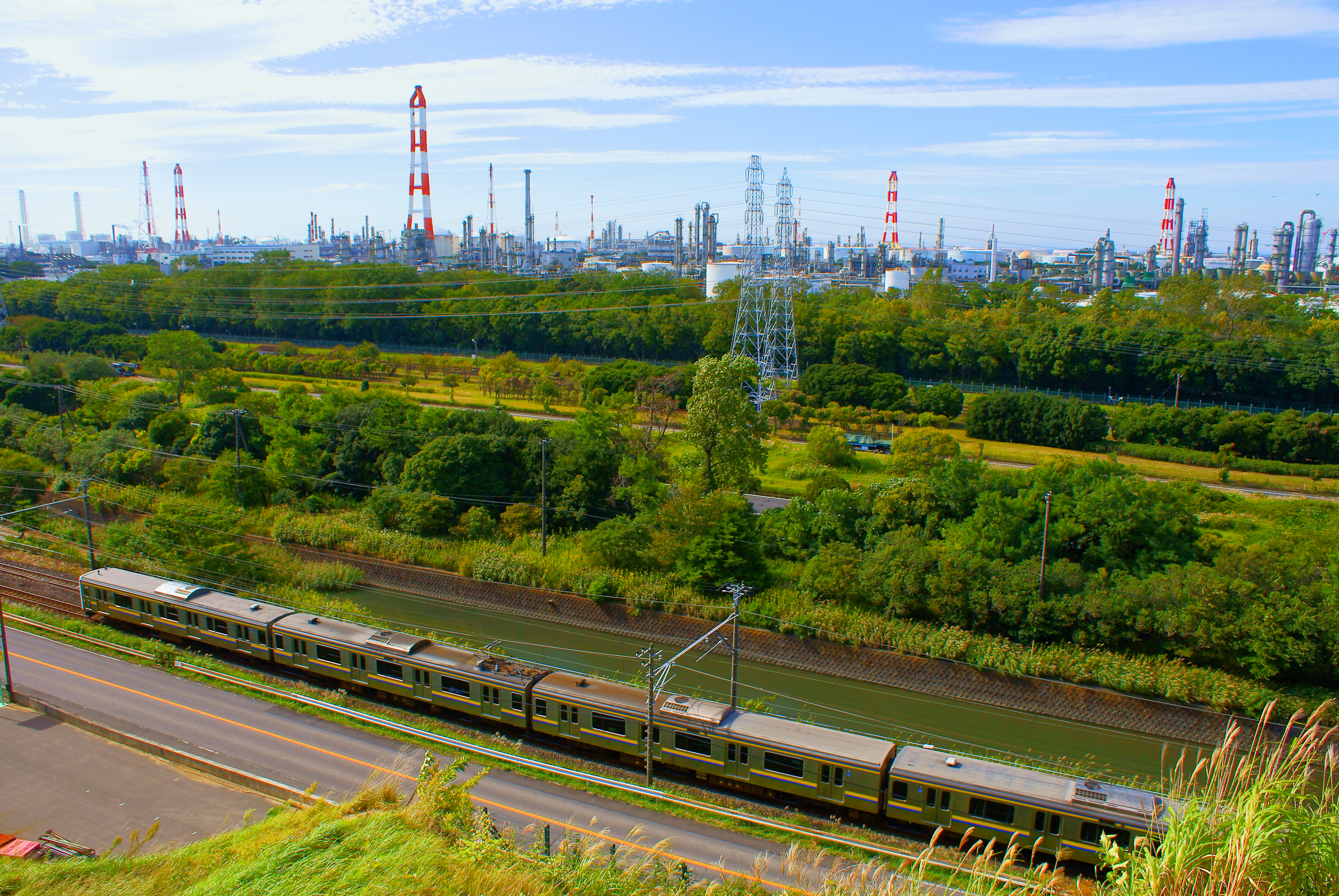 Keiyo Konbinat (Keiyo petrochemical complex) is the most greatest industrial complex in Japan. There are many of oil refineries, chemical factories, ironworks, and thermal power plants. 20% of oil used in Japan, 30% of ethylene, and 10% of steel are produced at there, and are generated electricity electric almost none of used in Tokyo metropolitan area. Natural gas is used for the fuel of the thermal power plants and exhausts only water and carbon dioxide, and soot and waste fluid are proccesed in other factories and are considered environment.